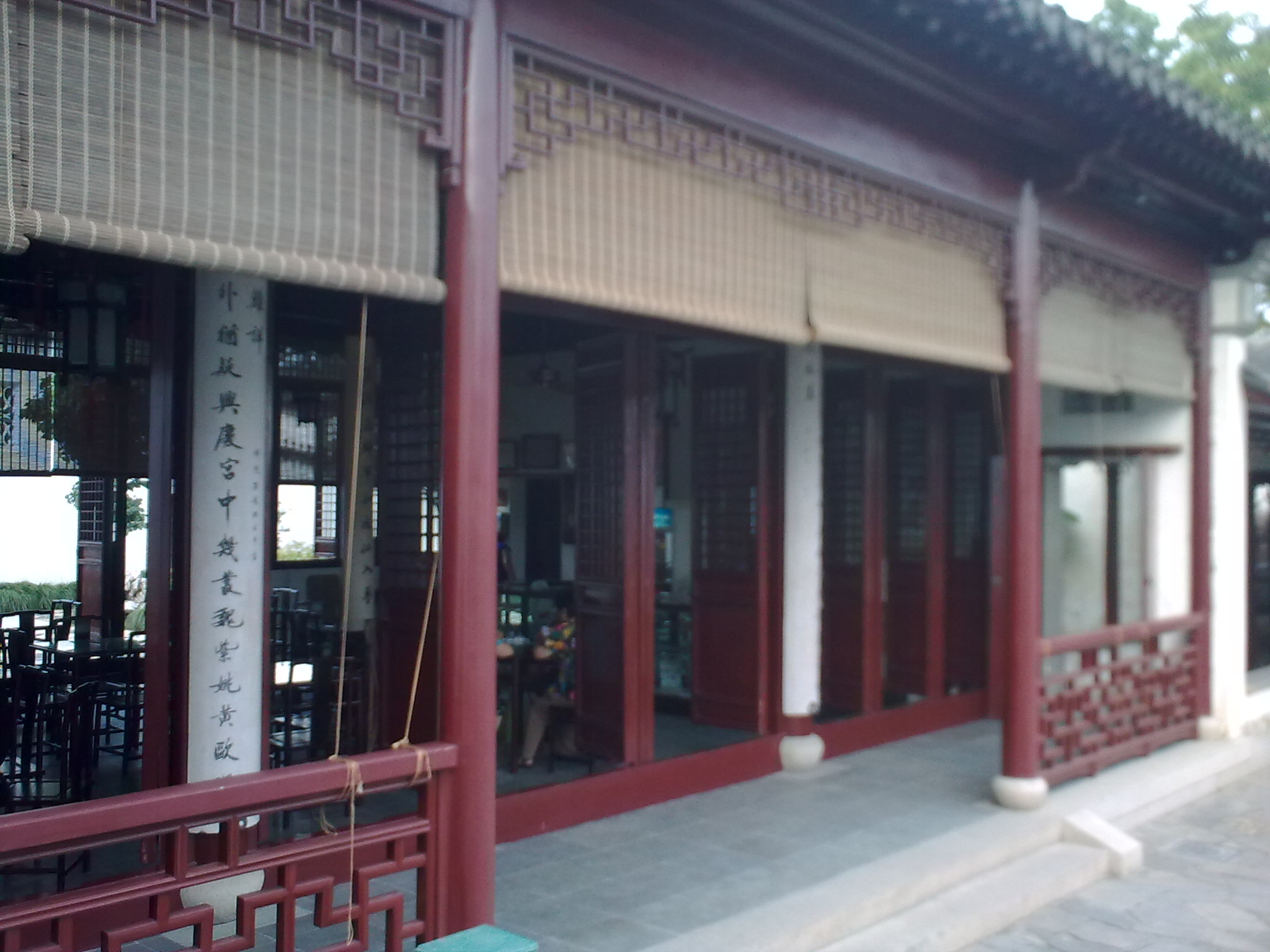 Hall of Dewy Grace